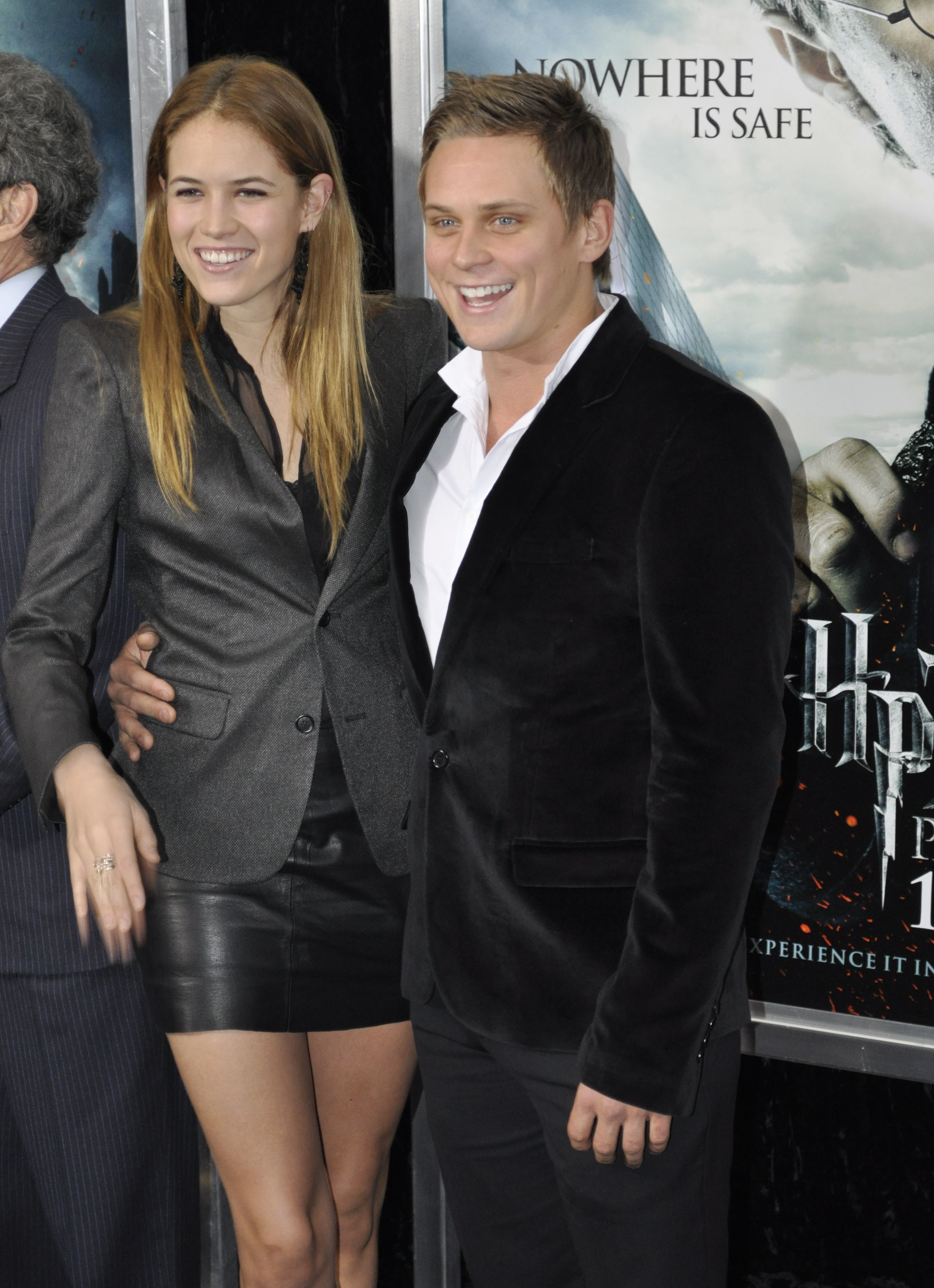 Harry Potter and The Deathly Hallows Premiere Alice Tully Center- NYC November 15th 2010